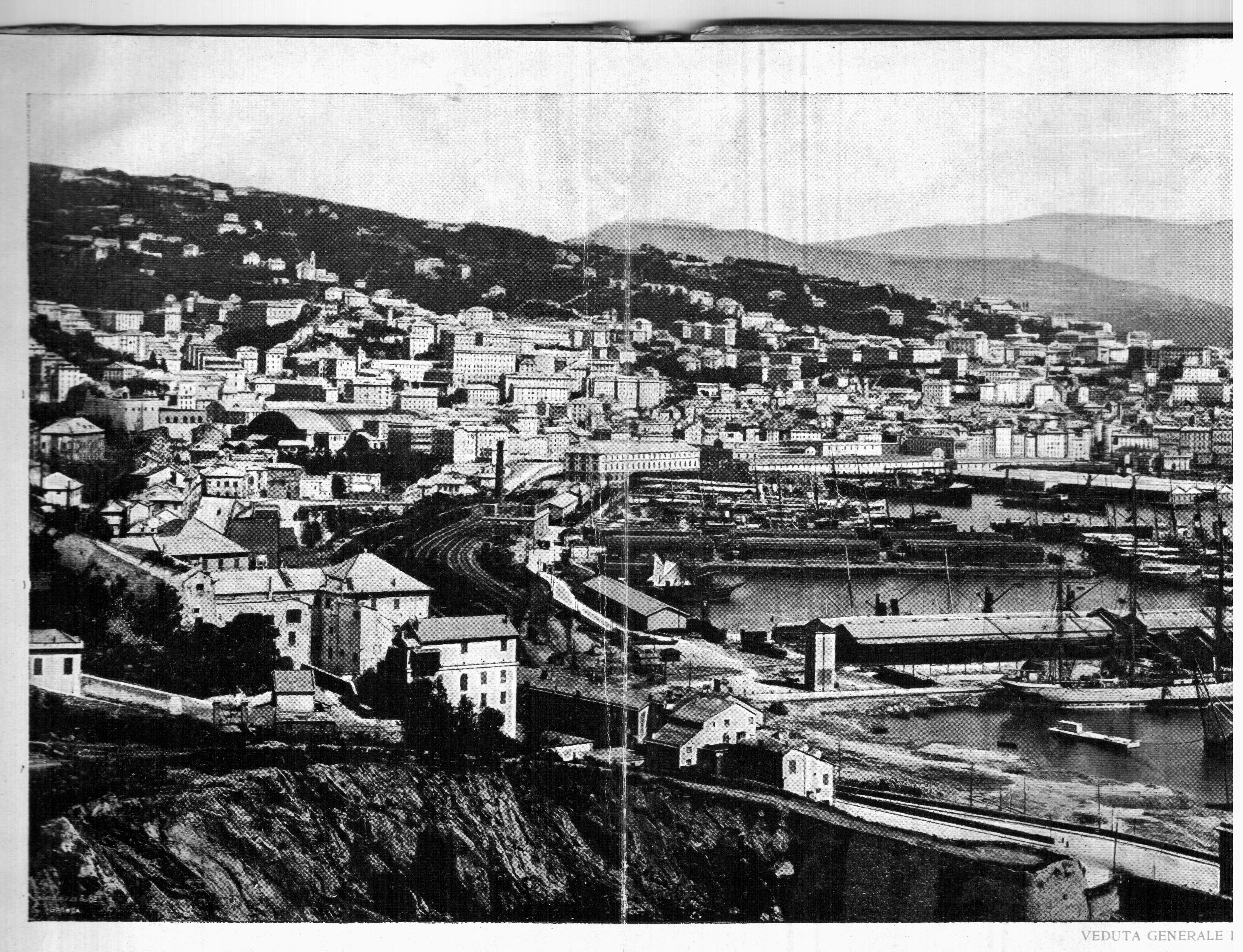 Genoa.